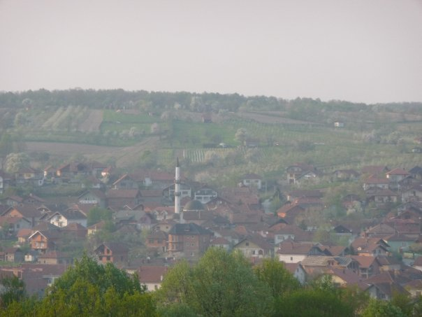 Ratkovići from Brda